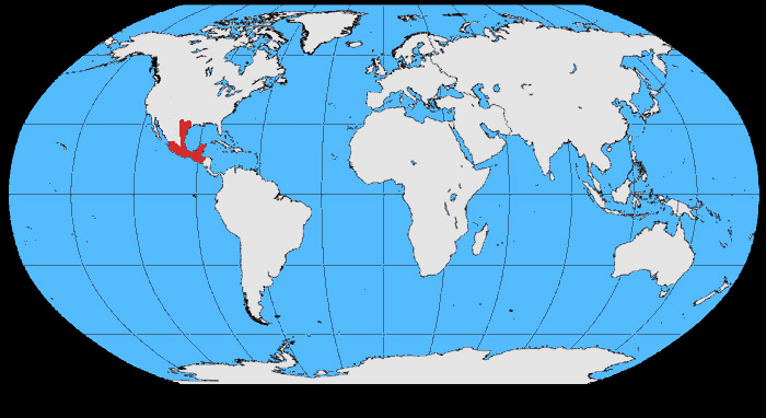 Cyanocorax luxuosus distribution map